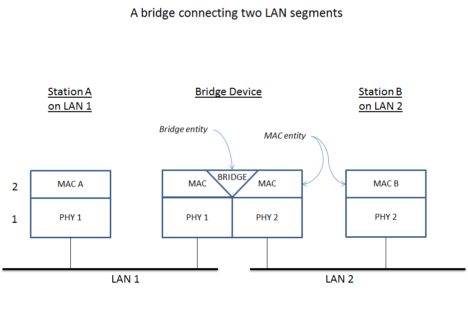 Network Bridging view using ISO/OSI layers and terminology